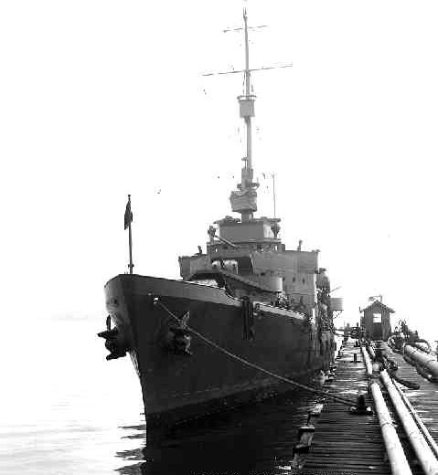 Photo #2427(41): Bow view of the United States Coast Guard cutter Alexander Hamilton (WPG-34) at the Norfolk Naval Shipyard in Portsmouth, Virginia.